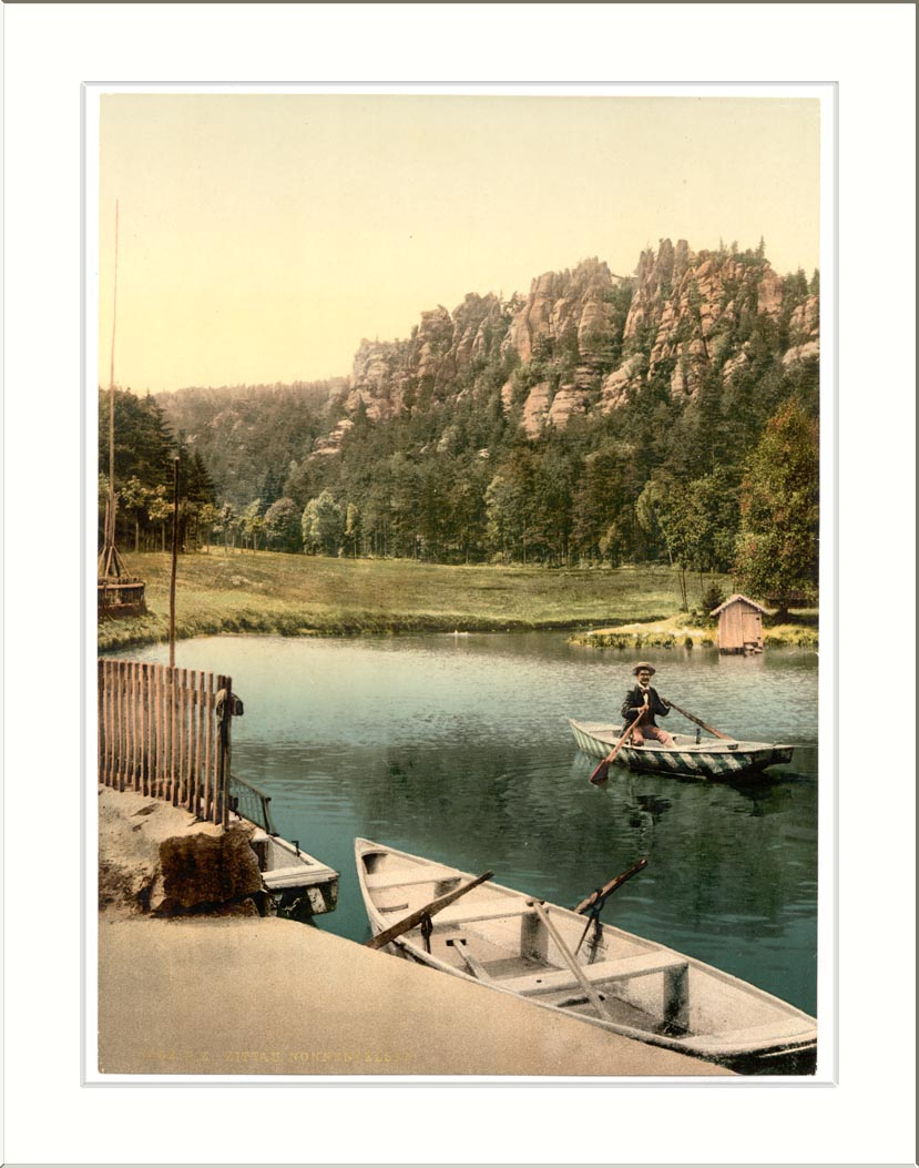 between ca. 1890 and ca. 1900. Print no. 8402. Views of Germany 1 photomechanical print : photochrom color. Library of Congress Prints and Photographs Division Washington D.C. 20540 USA Nonnenfelsen Zittau Saxony Germany between ca. 1890 and ca. 1900. Print no. 8402. Views of Germany 1 photomechanical print : photochrom color. Library of Congress Prints and Photographs Division Washington D.C. 20540 USA